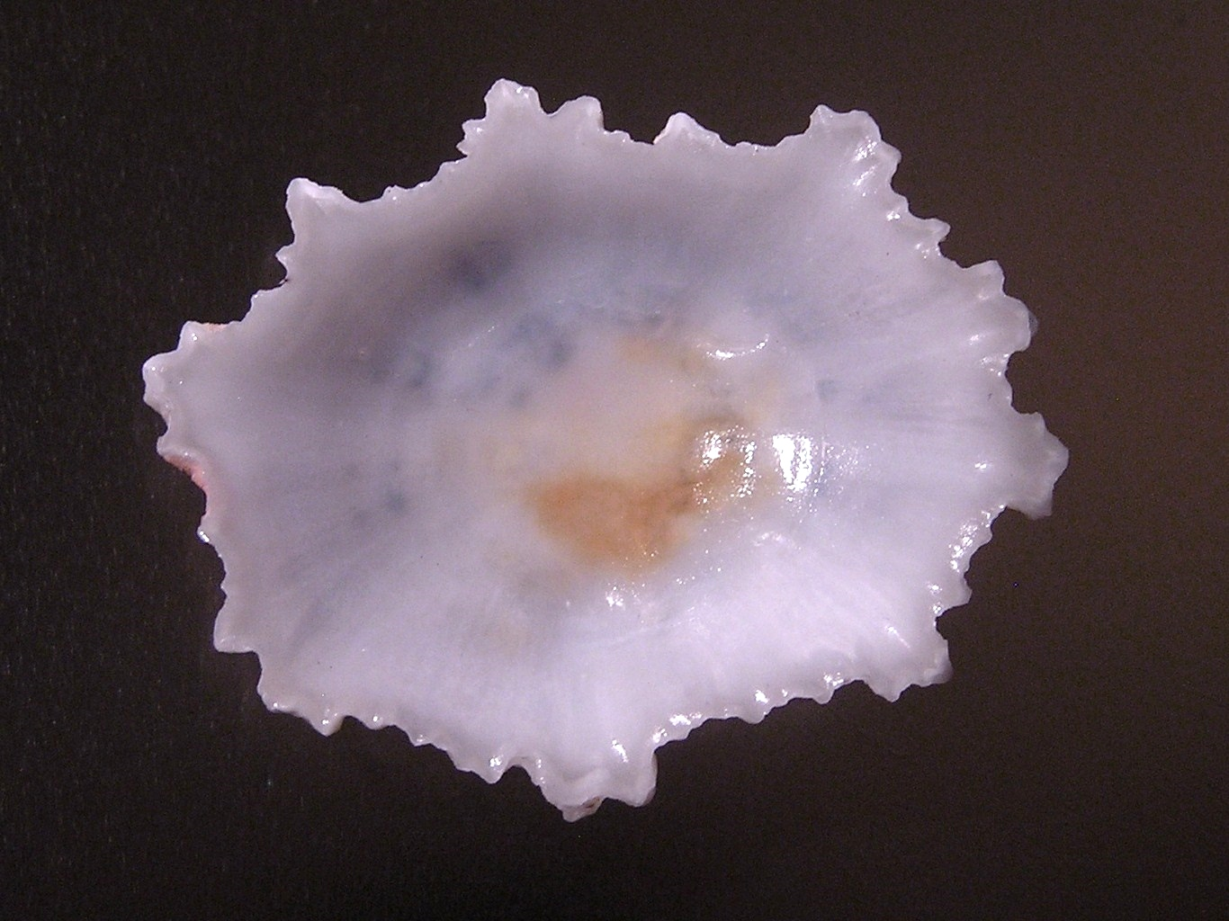 Scutellastra flexuosa Quoy & Gaimard, 1834; a true limpet from the family Patellidae; Philippines